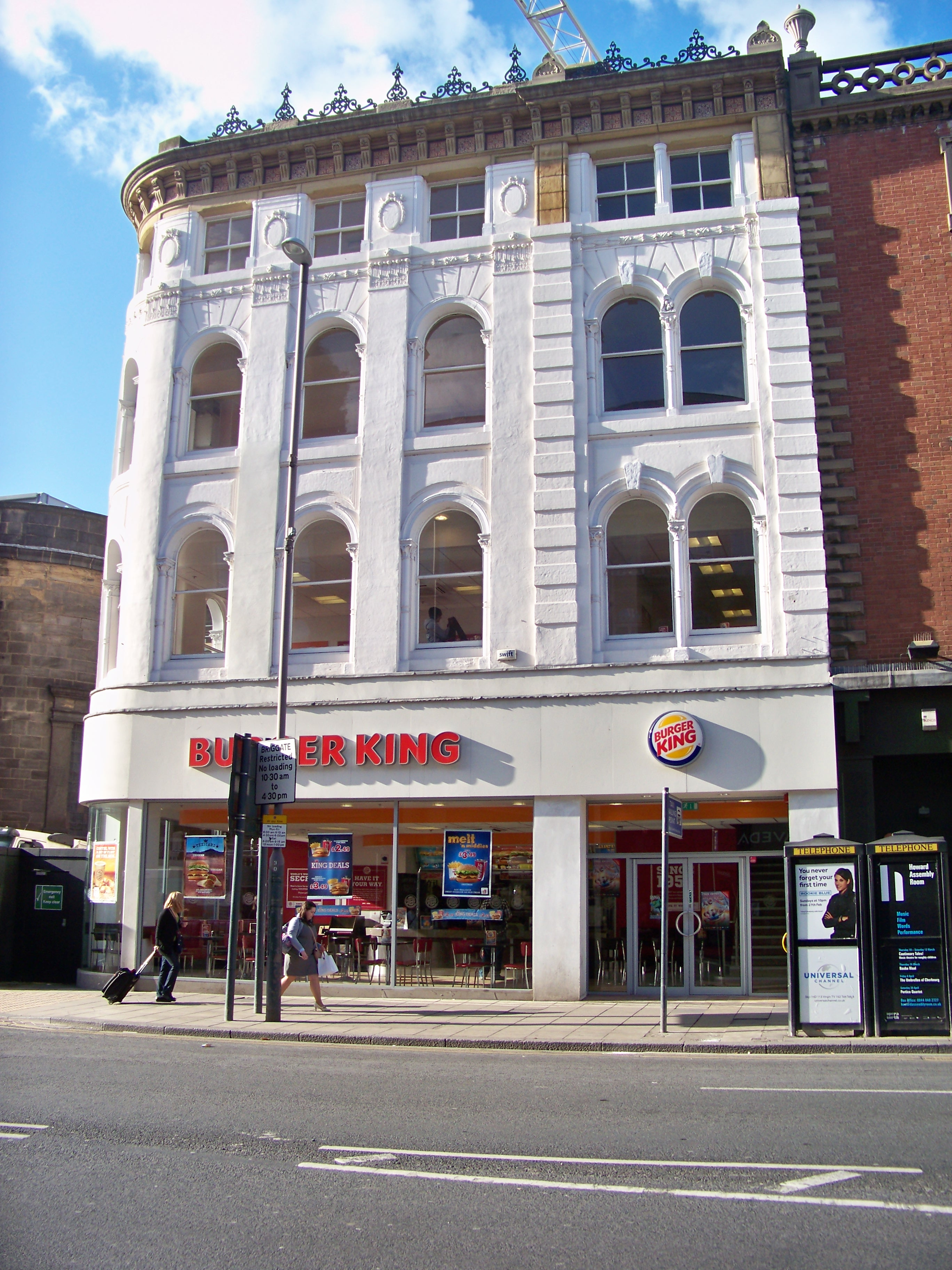 Burger King on Boar Lane in Leeds, West Yorkshire. Taken on the afternoon of Monday the 11th of April 2011.